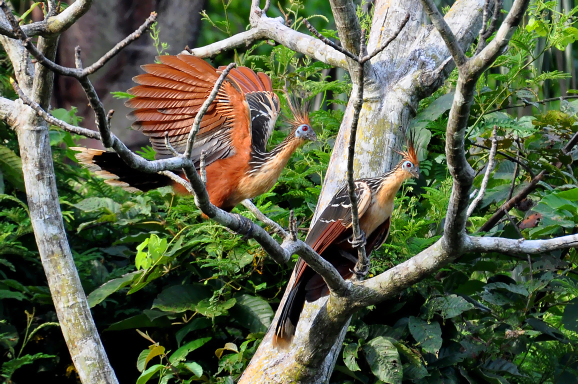 Opisthocomus hoazin photographed in the Amazon, Brazil, in November 2010.